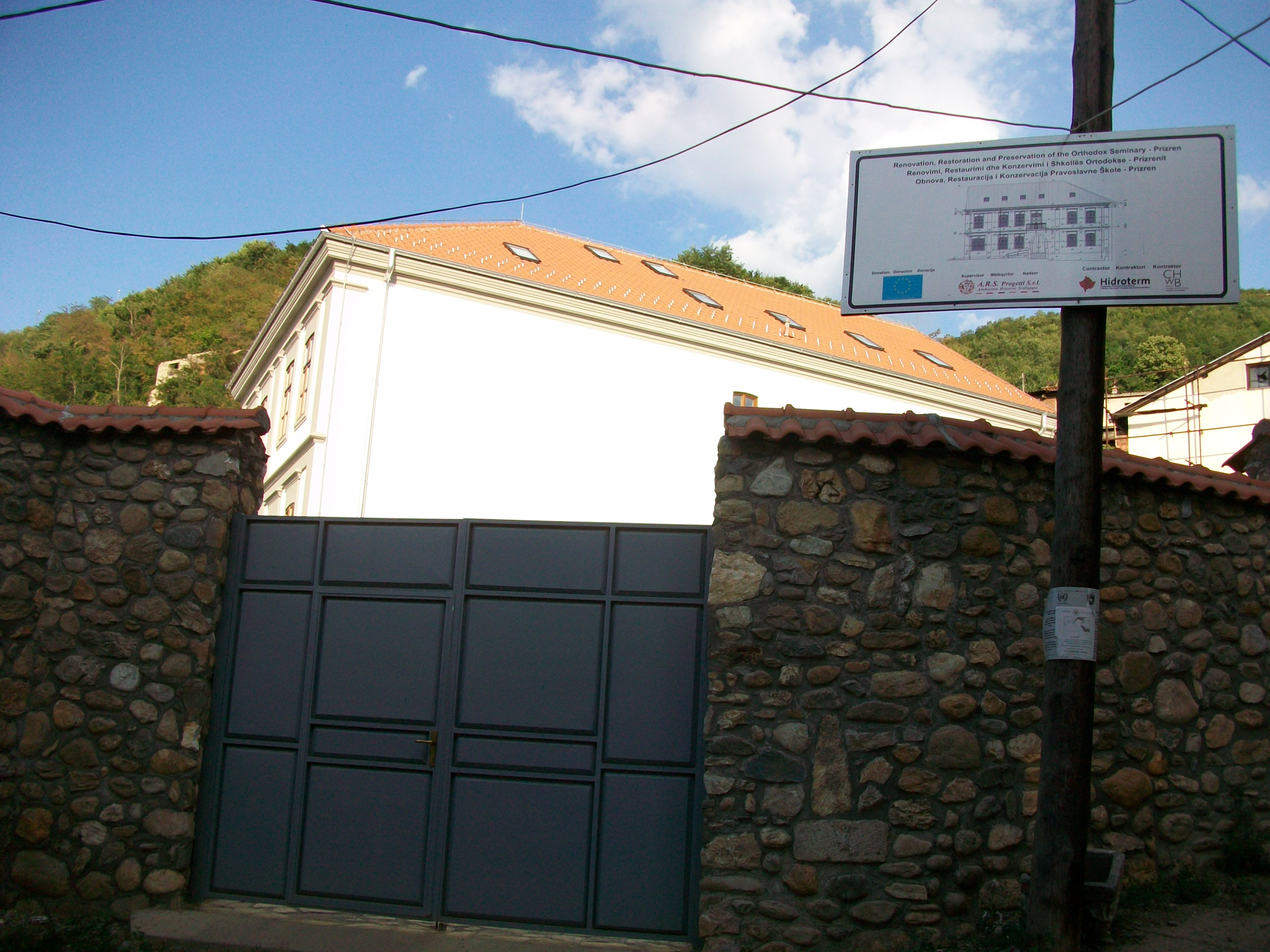 Pictures from Prizren Kosovo